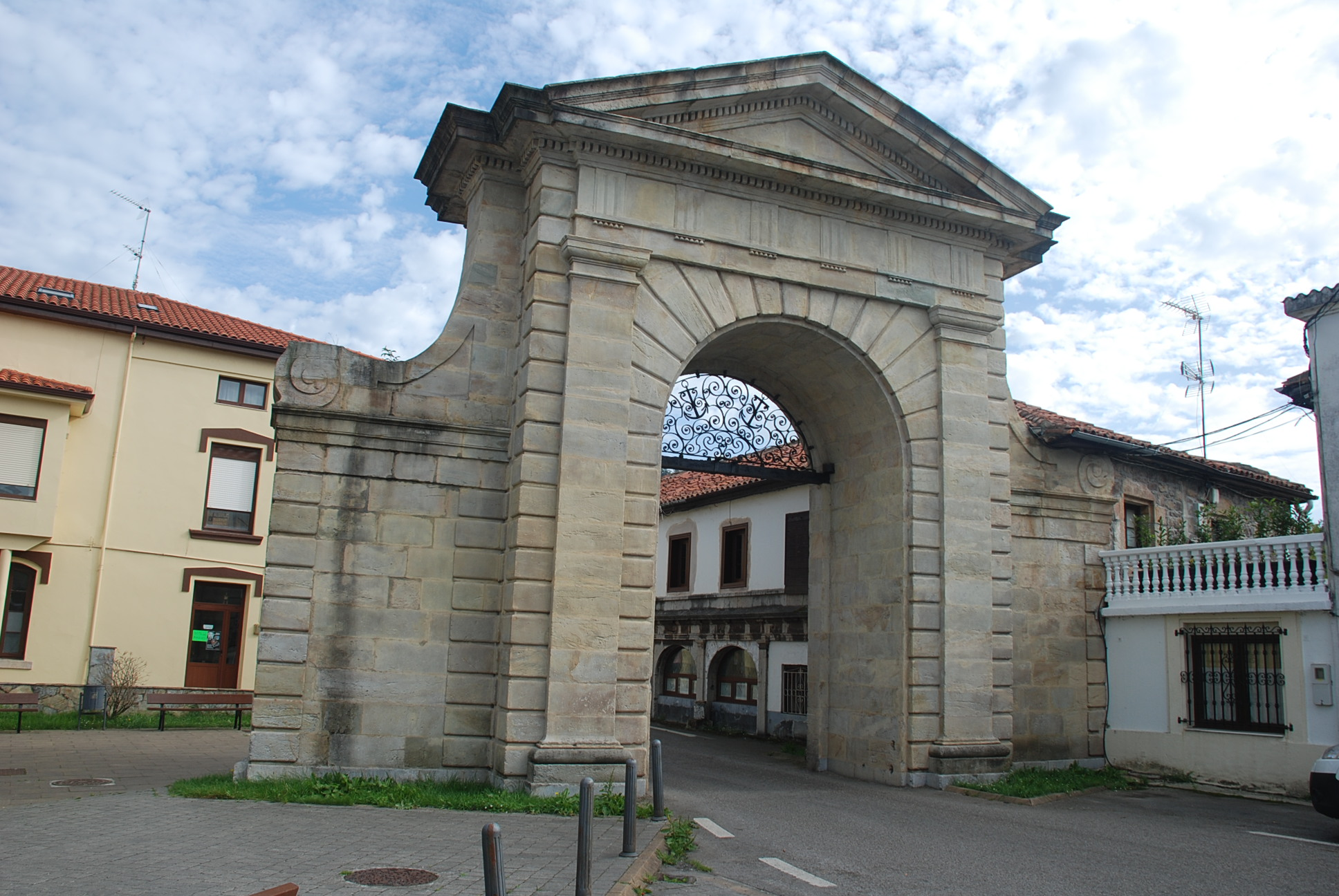 Gate of Charles III of Spain. It was the old entrance to the Royal Factory of Artillery at the municipality of La Cavada (Cantabria).